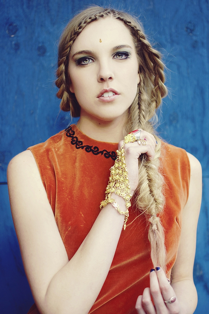 Fishtail hairstyle